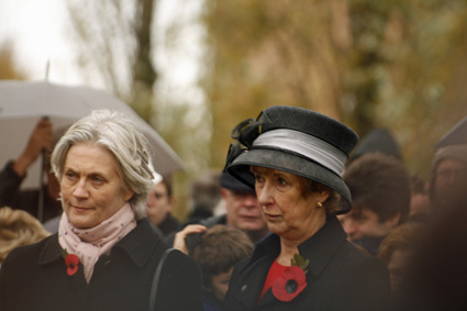 Penelope Fillon (prime Minster's wife) and Margaret Holmes (daughter of Truce participant Frank Richards) at the Frelinghien ceremony